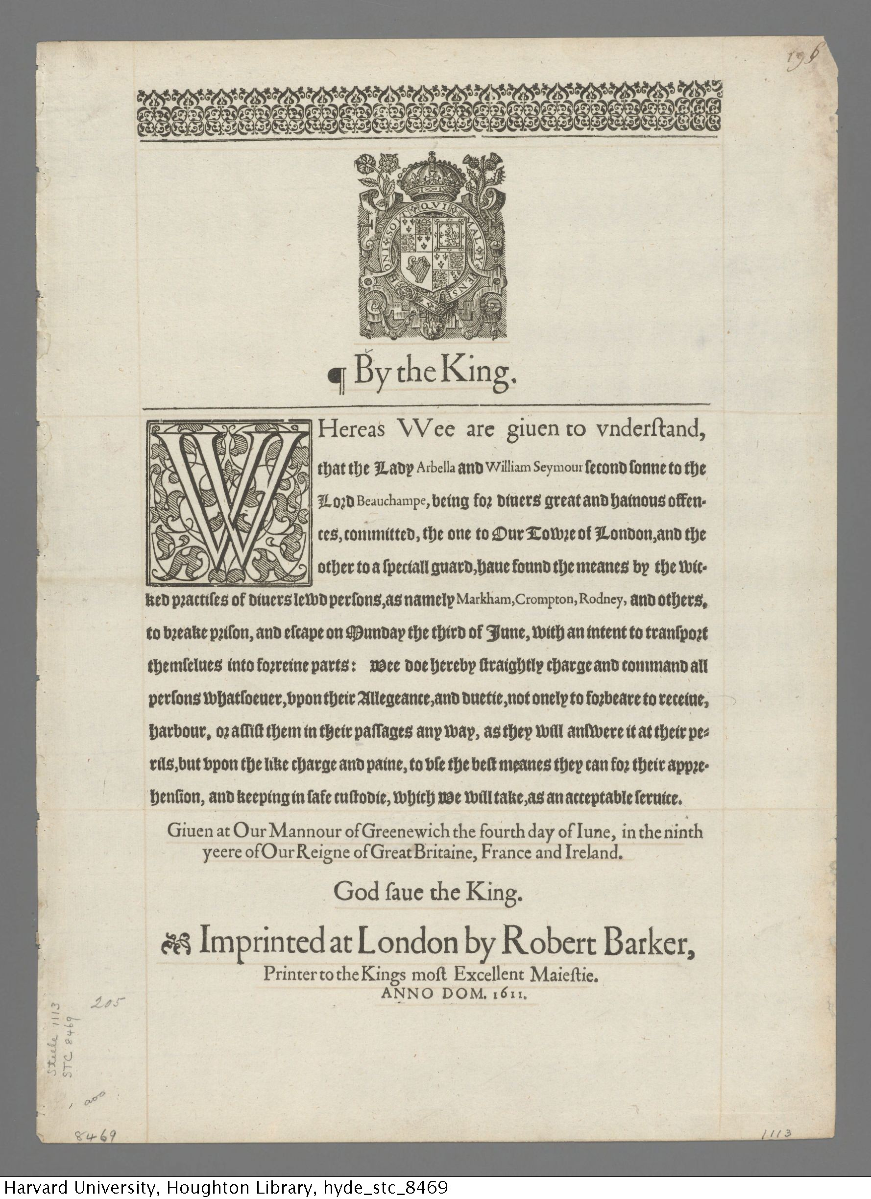 Royal warrant for the arrest of Lady Arabella Stuart and William Seymour, Duke of Somerset, issued by James I.